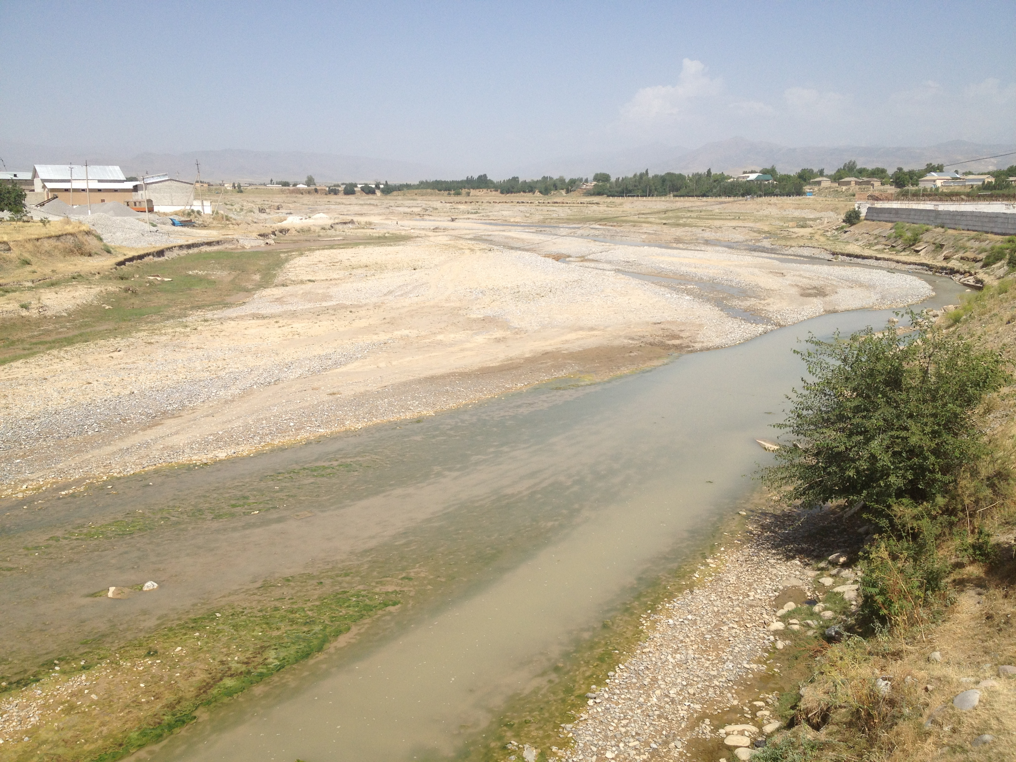 Qashqadaryo river in Kitab town Oʻzbekcha/ўзбекча: Qashqadaryo Kitobda